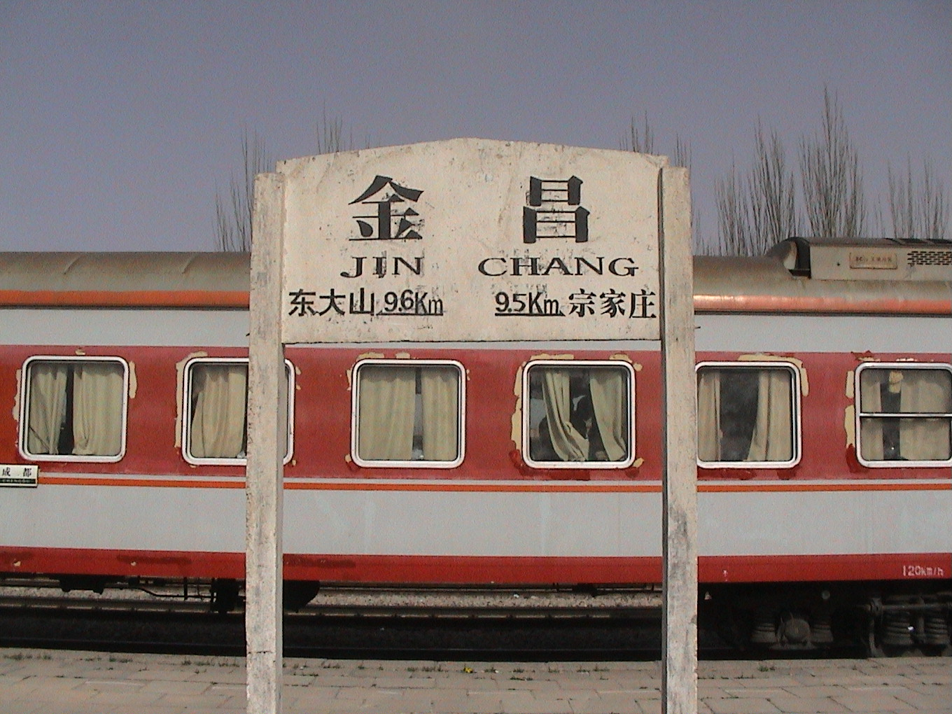 Jinchang railway station The station is located in Hexibao, 20 kilometers southwest to Jinchang city. This image was taken by User:Yaohua2000 at 2006-04-23 08:02:33 UTC.